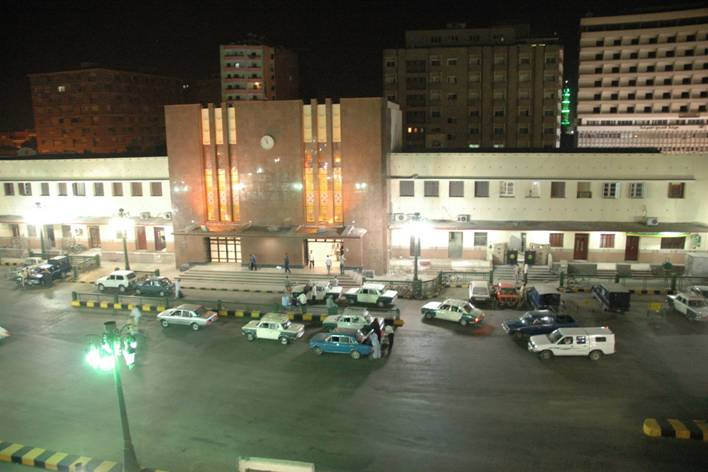 أهم عوامل الجذب السياحي في محافظة أسيوط